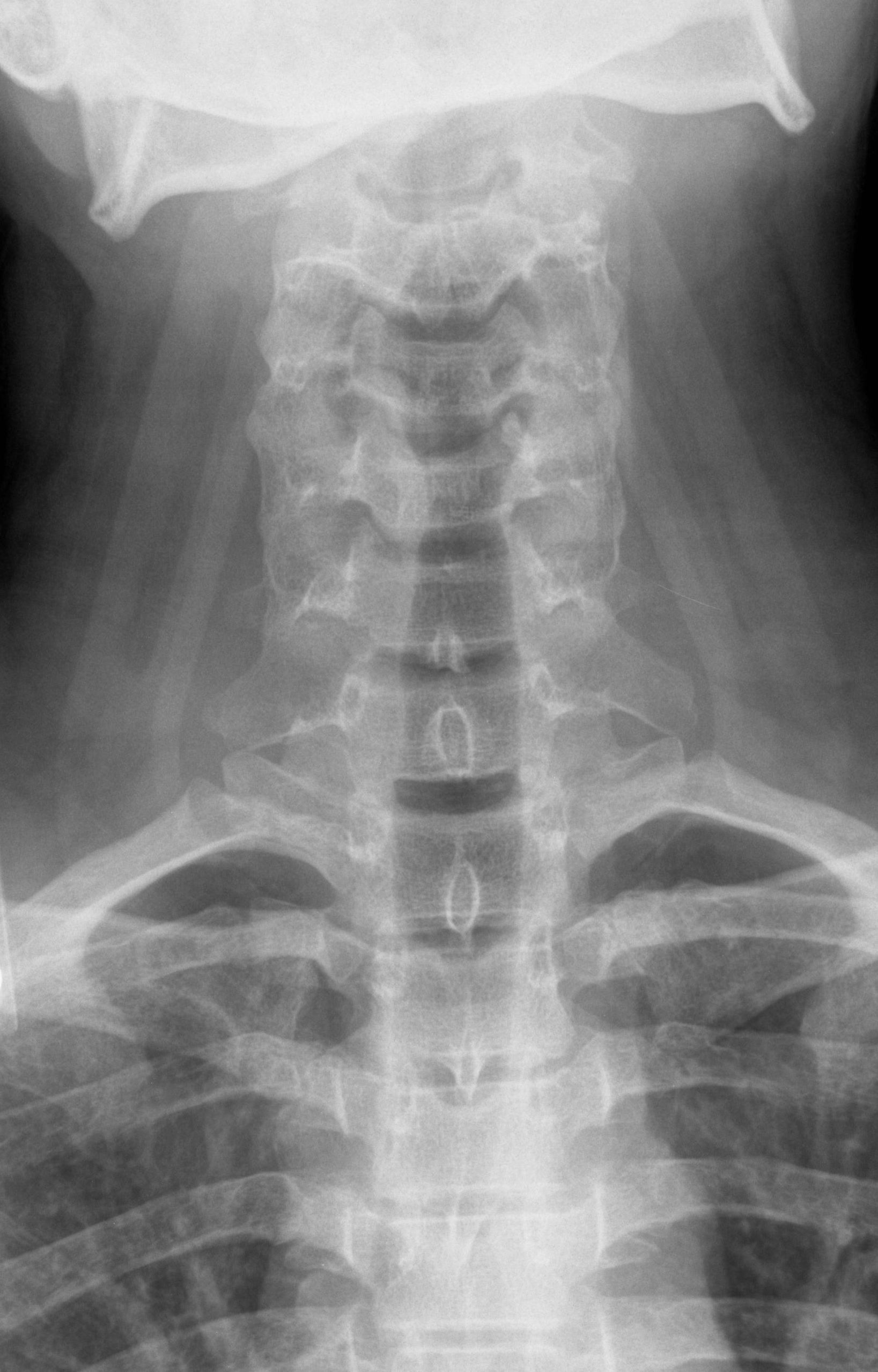 Projectional radiography ("X-ray") of a normal cervical spine of a 20 year old male, by anteroposterior view.